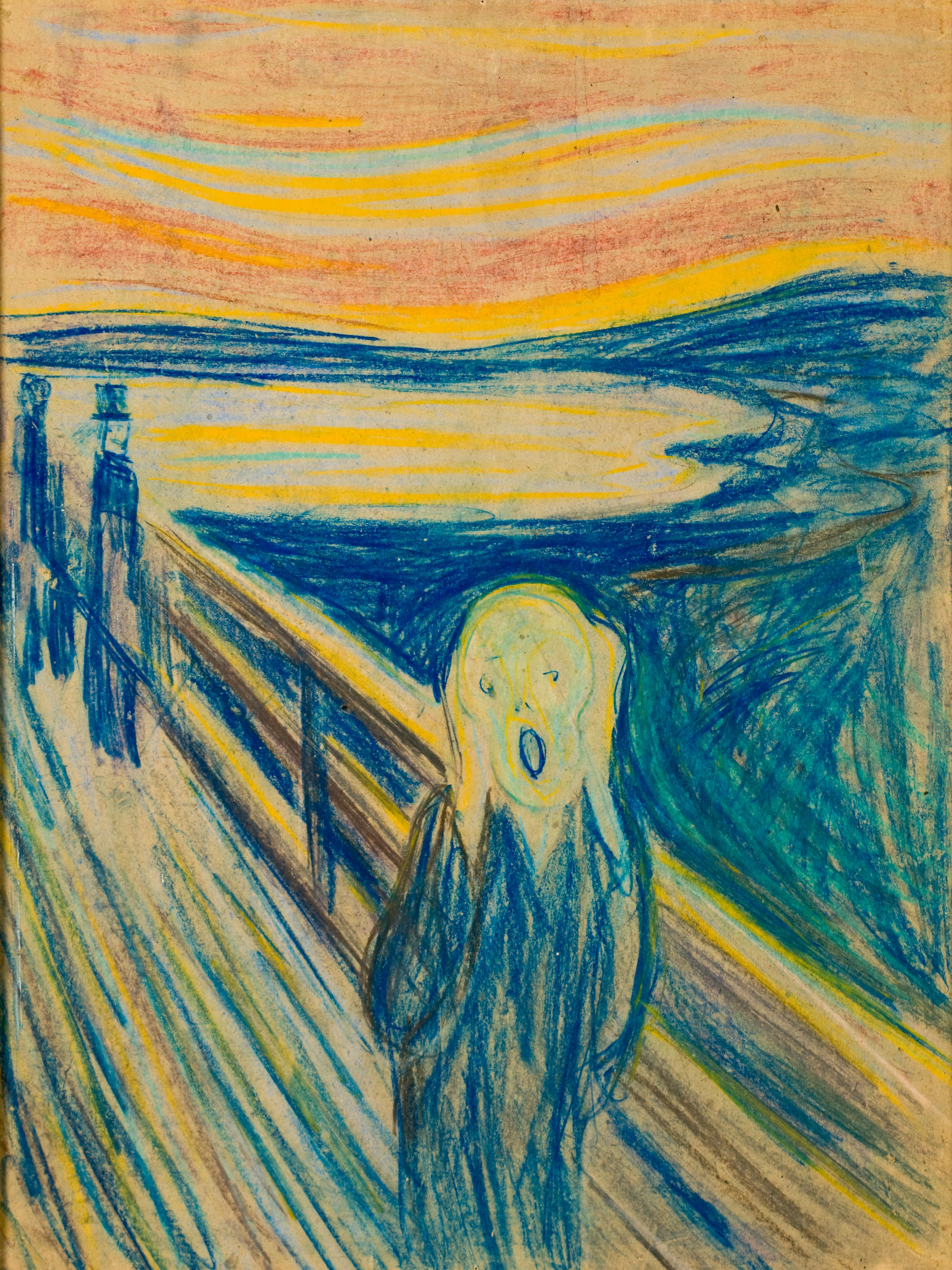 As the earliest version of 'The Scream', this pastel appears to be the sketch in which Munch mapped out the essentials of the composition.